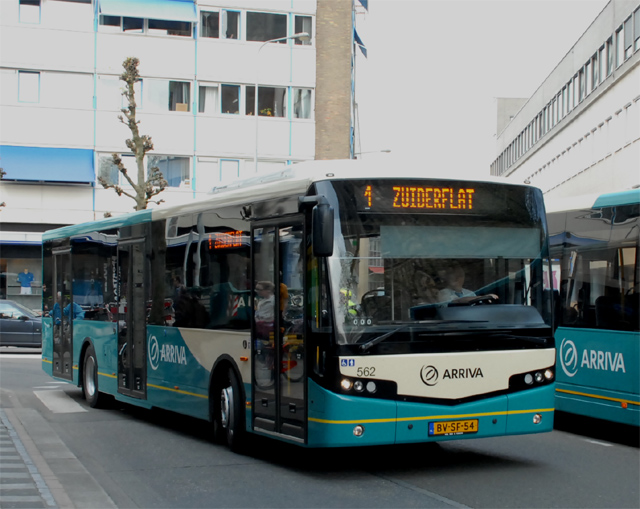 VDL Berkhof Citea CLF 120 low-floor testing bus (BV-SF-54, 562) in Groningen, Netherlands. Built 2009, Arriva NL operator.